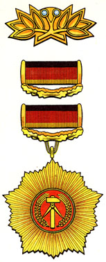 Image of the East German Vaterländischer Verdienstorden ("Patriotic Order of Merit") taken from Taschenlexikon Orden und Medaillen Staatliche Auszeichnungen der DDR, VEB Bibliographisches Institute Leipzig 1983.